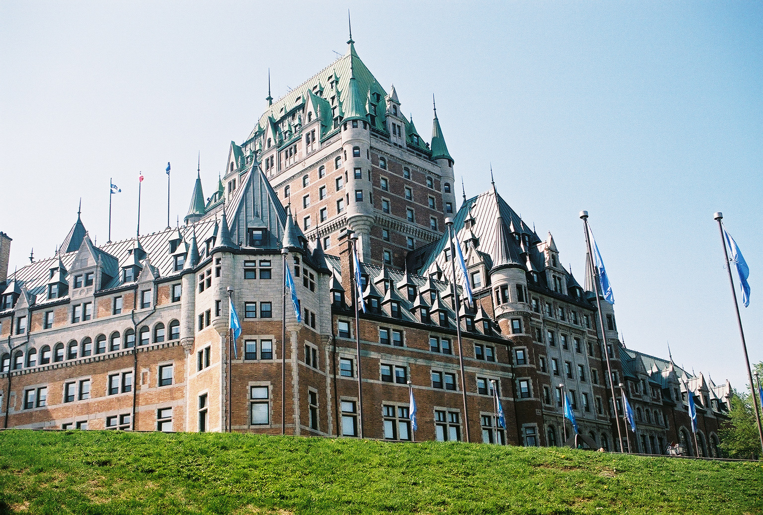 Picture of Château Frontenac taken in 2003